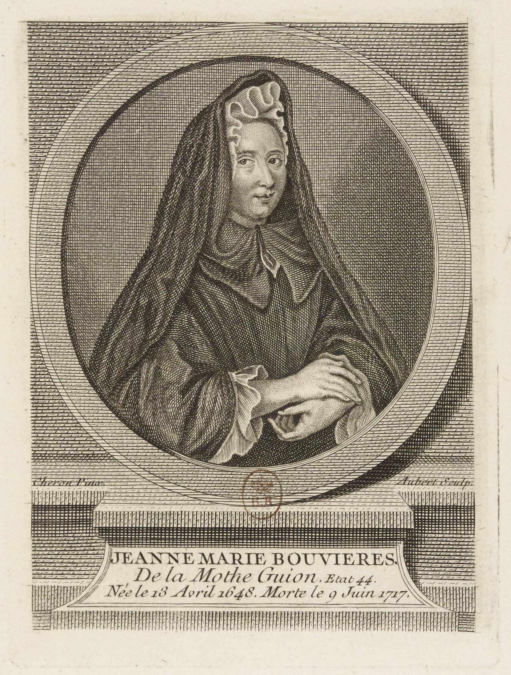 Jeanne Marie Bouvier de la Motte Guyon (1648 - 1717), 17th-century french mystic.